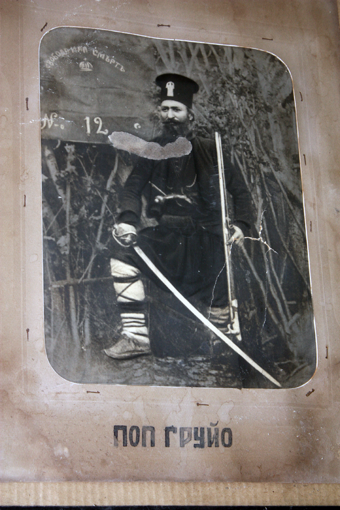 A photo of a portrait of Bulgarian National Liberation revolutionary Priest Gruyo Banski, died 1908